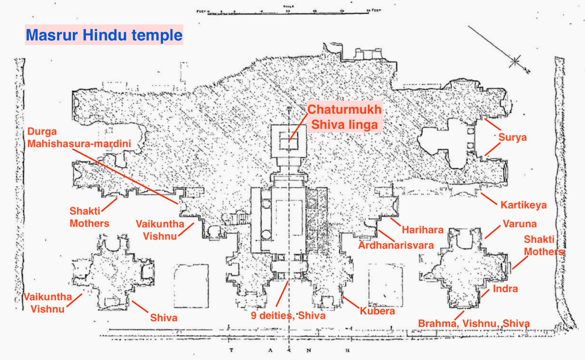 The Masrur rock-cut temple in Himachal Pradesh shows a diversity of iconography from all major traditions of Hinduism. Michael Meister states that this likely reflects Hindu ecumenism or henotheism by the 8th-century. Above is an incomplete location of some icon reliefs. For more details see Figure 25 and discussion in Meister's This is a derivative work on wikimedia file: 8th century Masrur temple ground plan.jpg